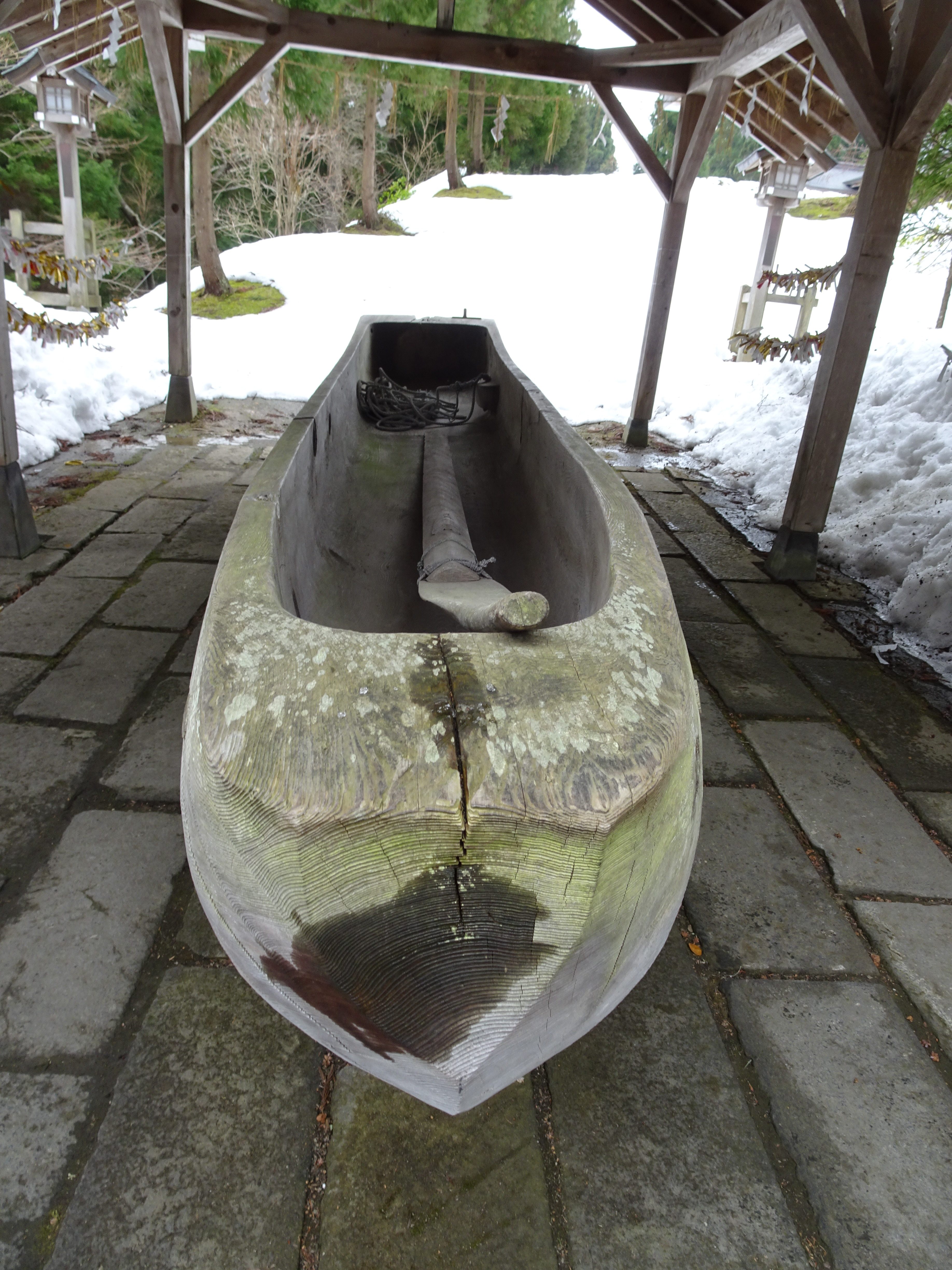 An old monoxylons dedicated to Shinzan Jinja or Shinzan Shrine in Oga City,Akita Prefecture,Japan. Its annual rings show the center of gravity of the timber which gives the boat good balance on water.